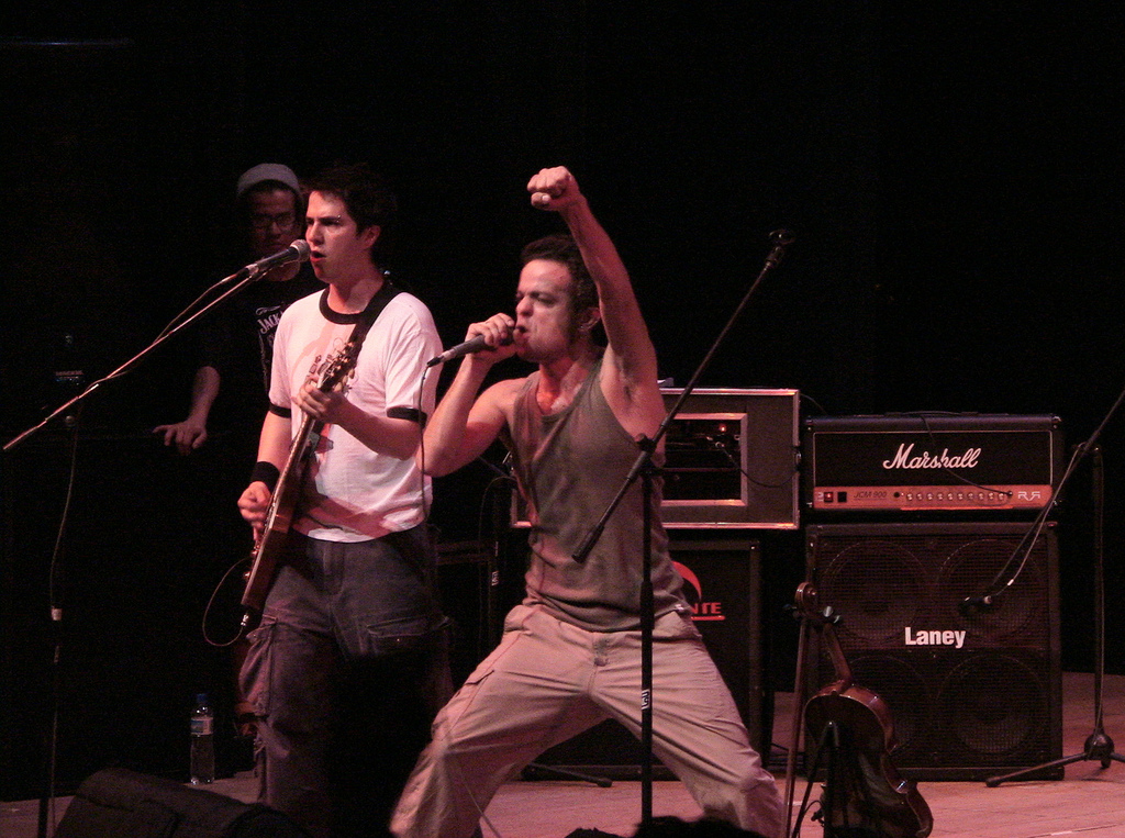 Ultrágeno, a Colombian ROCK band